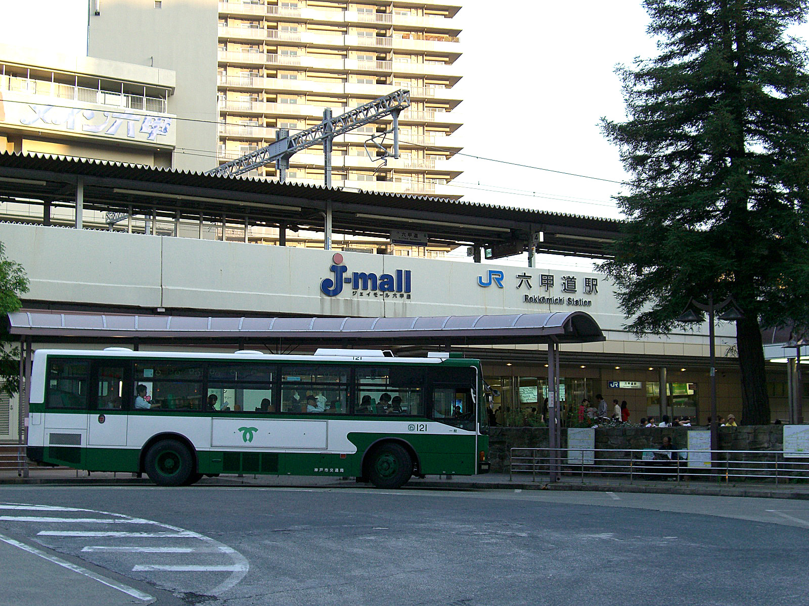 West Japan Railway Tōkaidō Main Line（JR Kōbe Line） Rokkōmichi Station Building North Gate